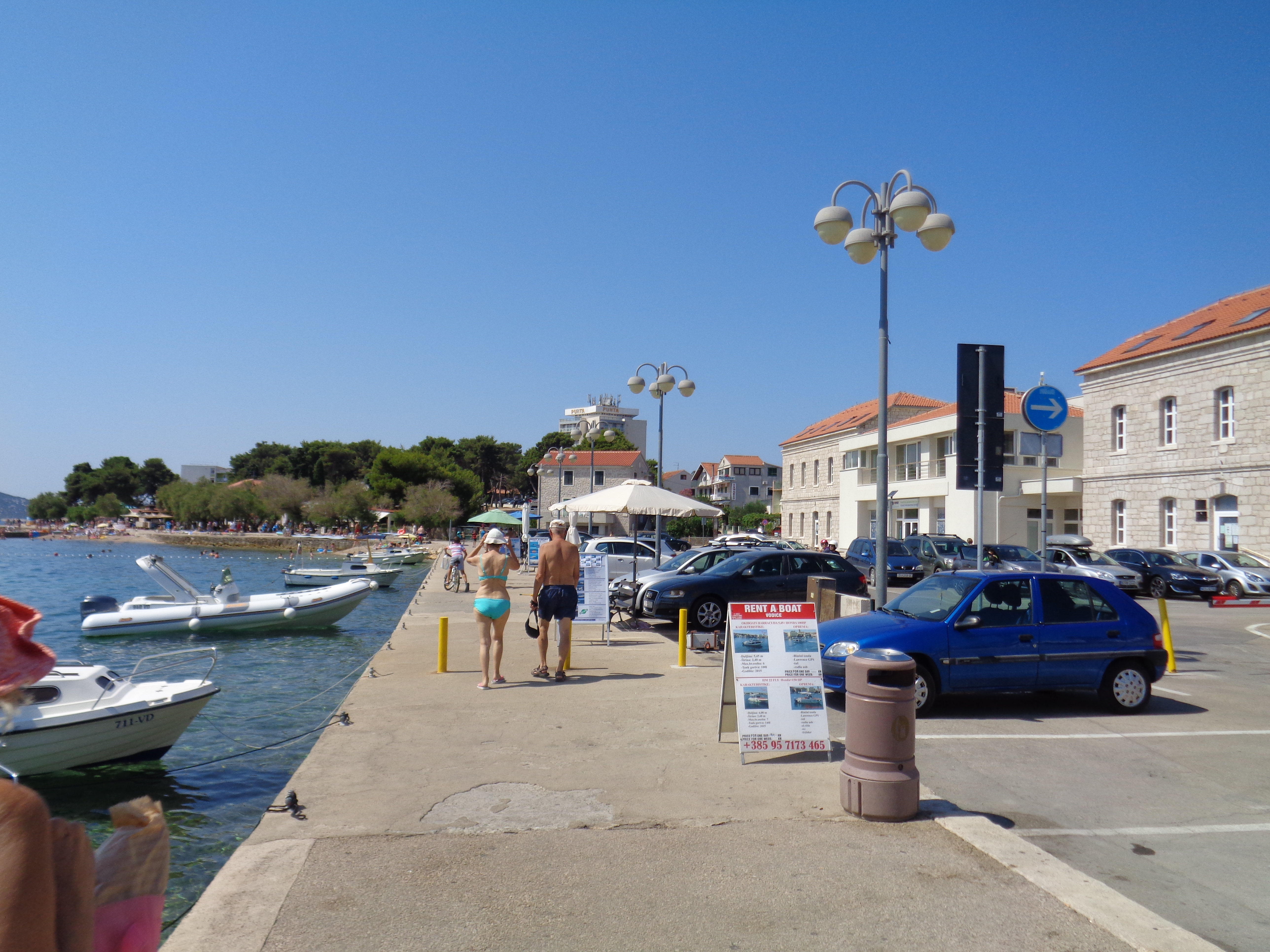 Vodice, Šibenik-Knin County, Croatia - waterfront promenade (west view)